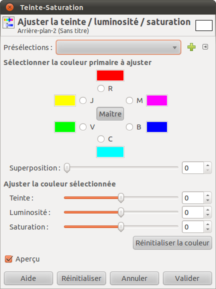 Gimp: Hue/Saturation window (in french)